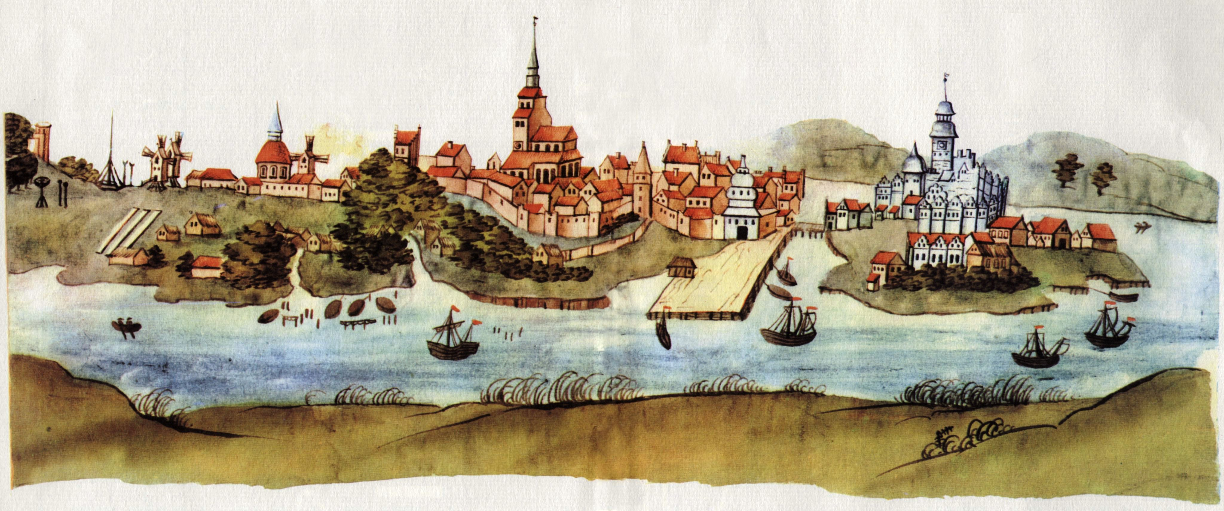 Cityview of Wolgast from the "Stralsunder Bilderhandschrift"